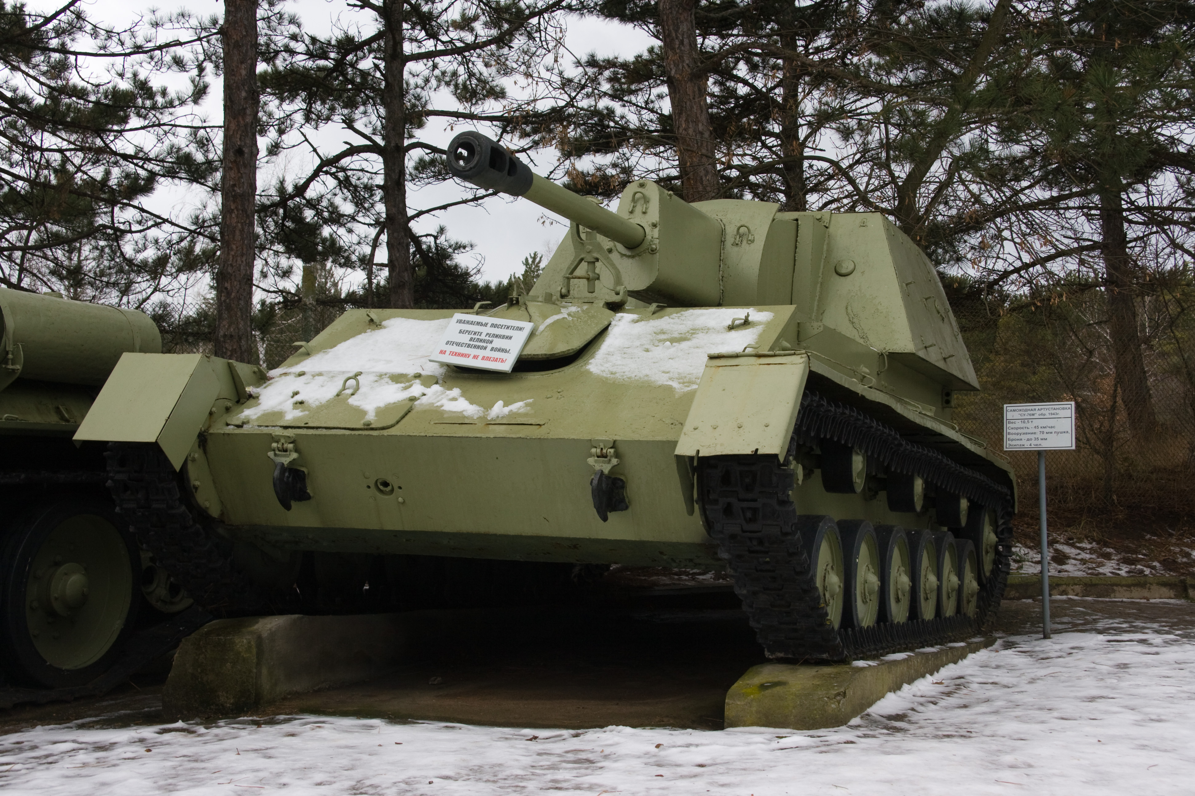 SU-76M (1943) at Sapun-Gora